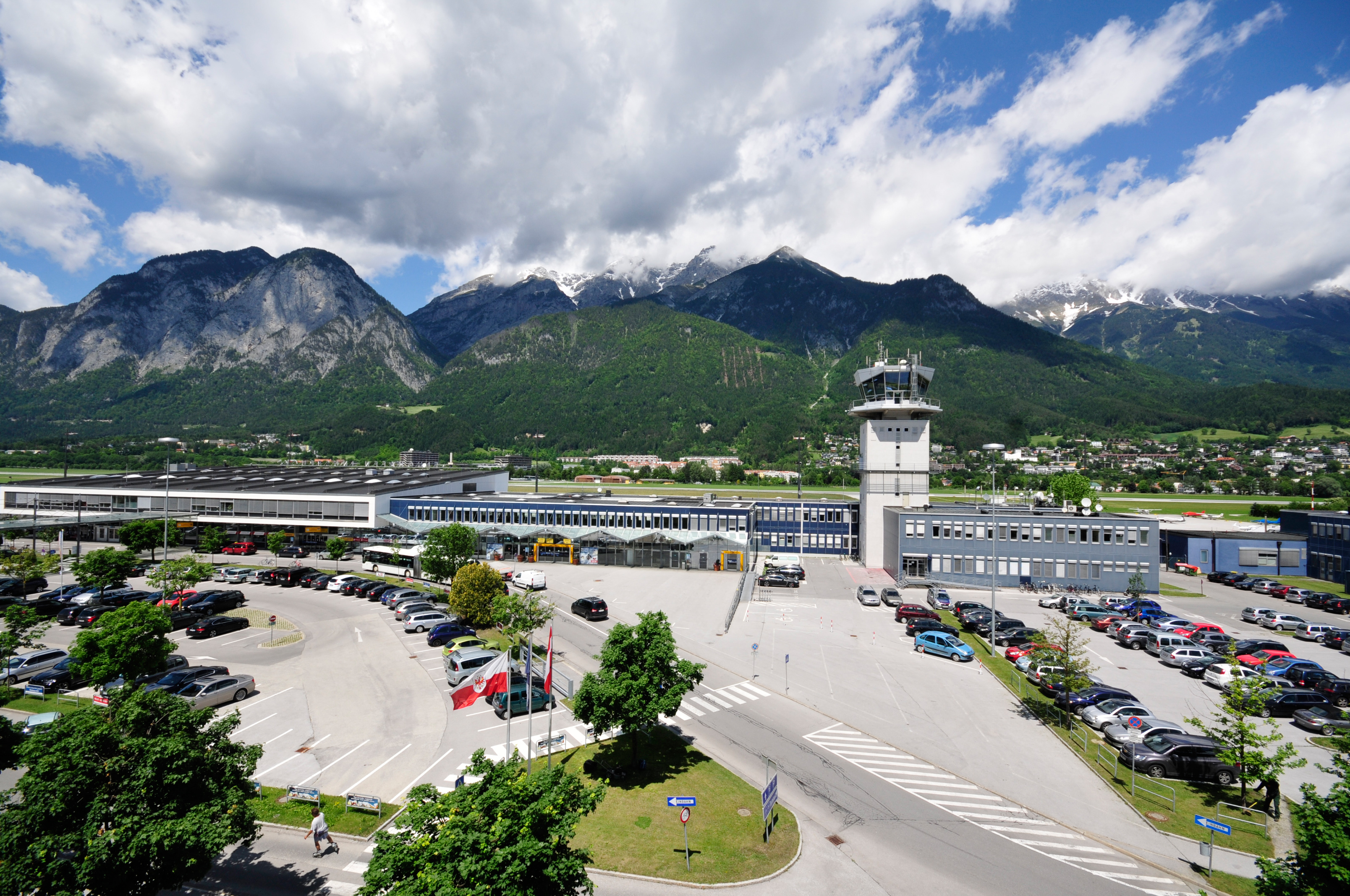 Innsbruck Airport, Austria Im Rahmen des Fußballländerspiels Österreich gegen Rumänien bin ich einige Stunden durch Innsbruck gefahren und habe Aufnahmen gemacht, die vielleicht mal gebraucht werden könnten. --Ralf Roleček 11:20, 10 June 2012 (UTC) The making of this work was supported by Wikimedia Austria. For other files made with the support of Wikimedia Austria, please see the category Supported by Wikimedia Österreich.